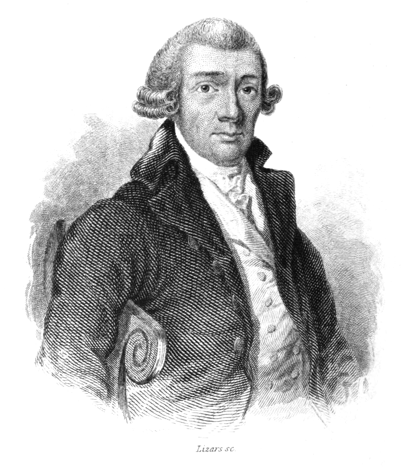 Dru Drury (1725-1803), British entomologist.